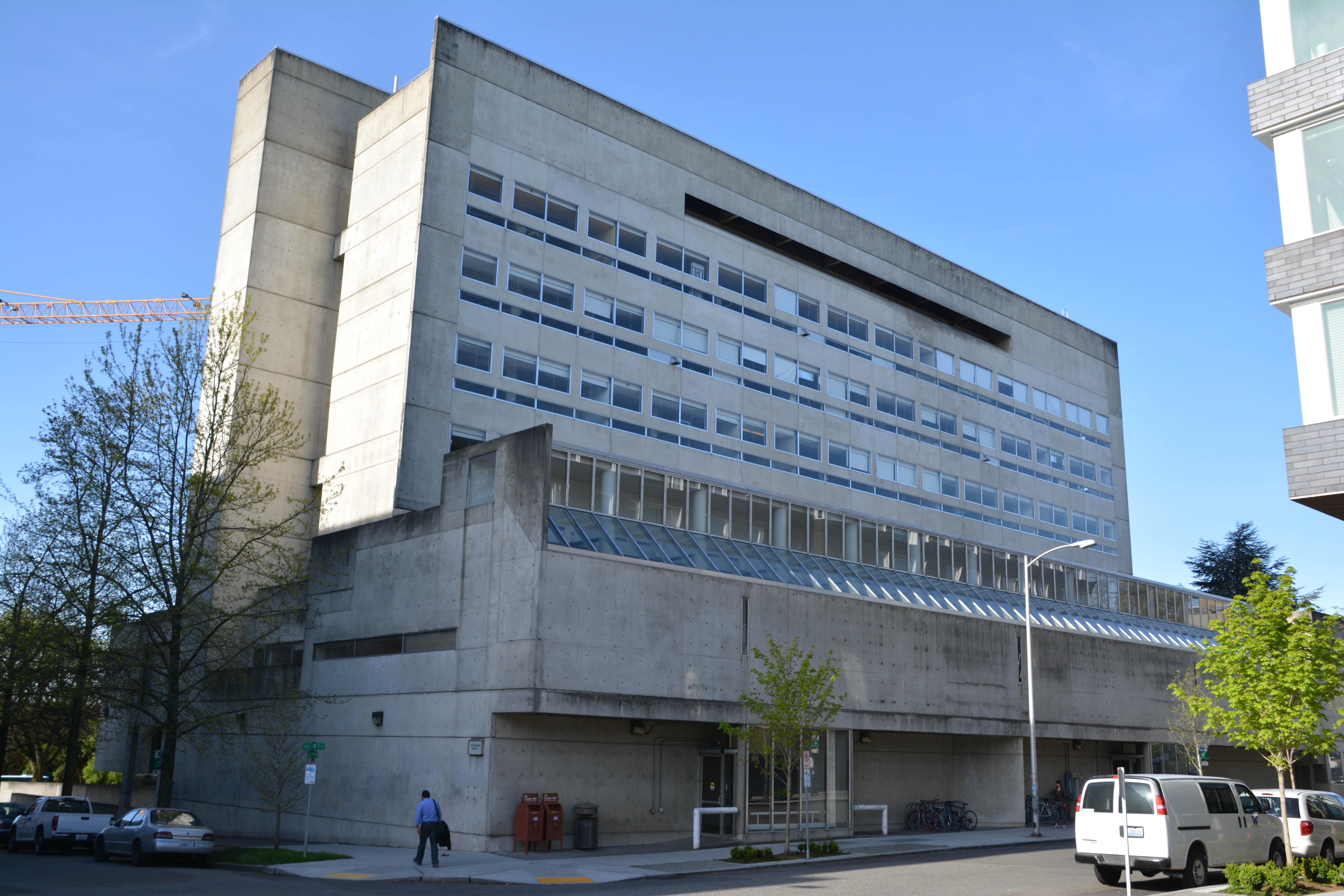 Condon Hall from the Northeast